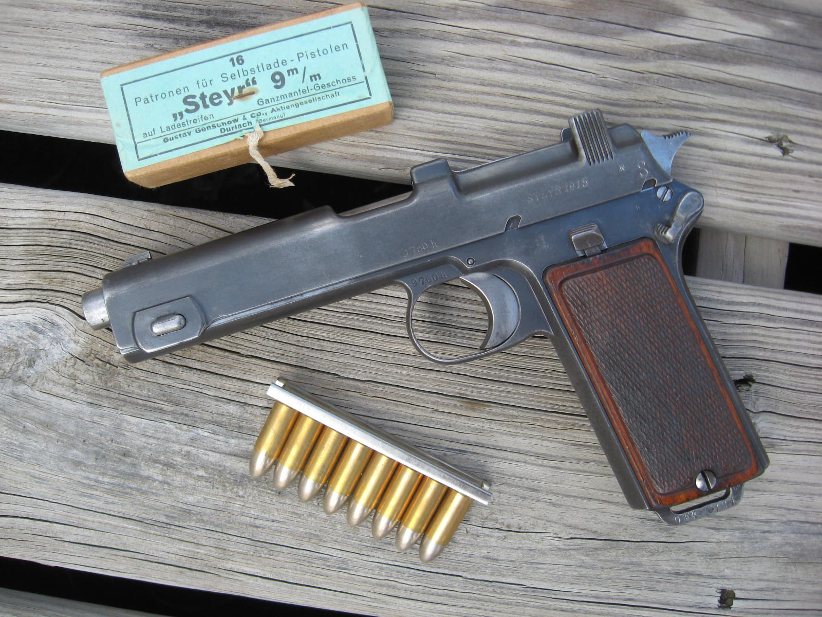 Austrian Steyr-Hahn M1912 pistol made in 1915. Seen with box and magazine charger clip of 9x23mm Steyr ammunition.